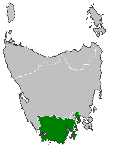 This is a representation of the electoral borders in the Division of Franklin a more detailed map can be found on the Tasmanian electoral commission website